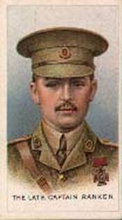 Colourised photograph of Victoria Cross recipient Captain Harry Sherwood Ranken, RAMC.